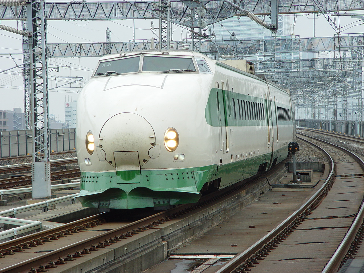 JR East 200 series shinkansen set K31 approaching Omiya Station on the down Nasuno 239 service